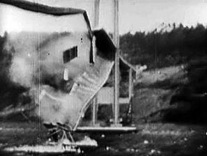 From Image:Tacoma Narrows Bridge Falling.png The Tacoma Narrows Bridge Collapsing. This is a screenshot of the film Stillman Fires Collection: Tacoma Fire Dept downloaded from at [1], where it states that this film is in the public domain. I applied levels, shadows/highlights, and sharpening to the screenshot. Uploaded by Qutezuce, 04:35, 11 August 2005